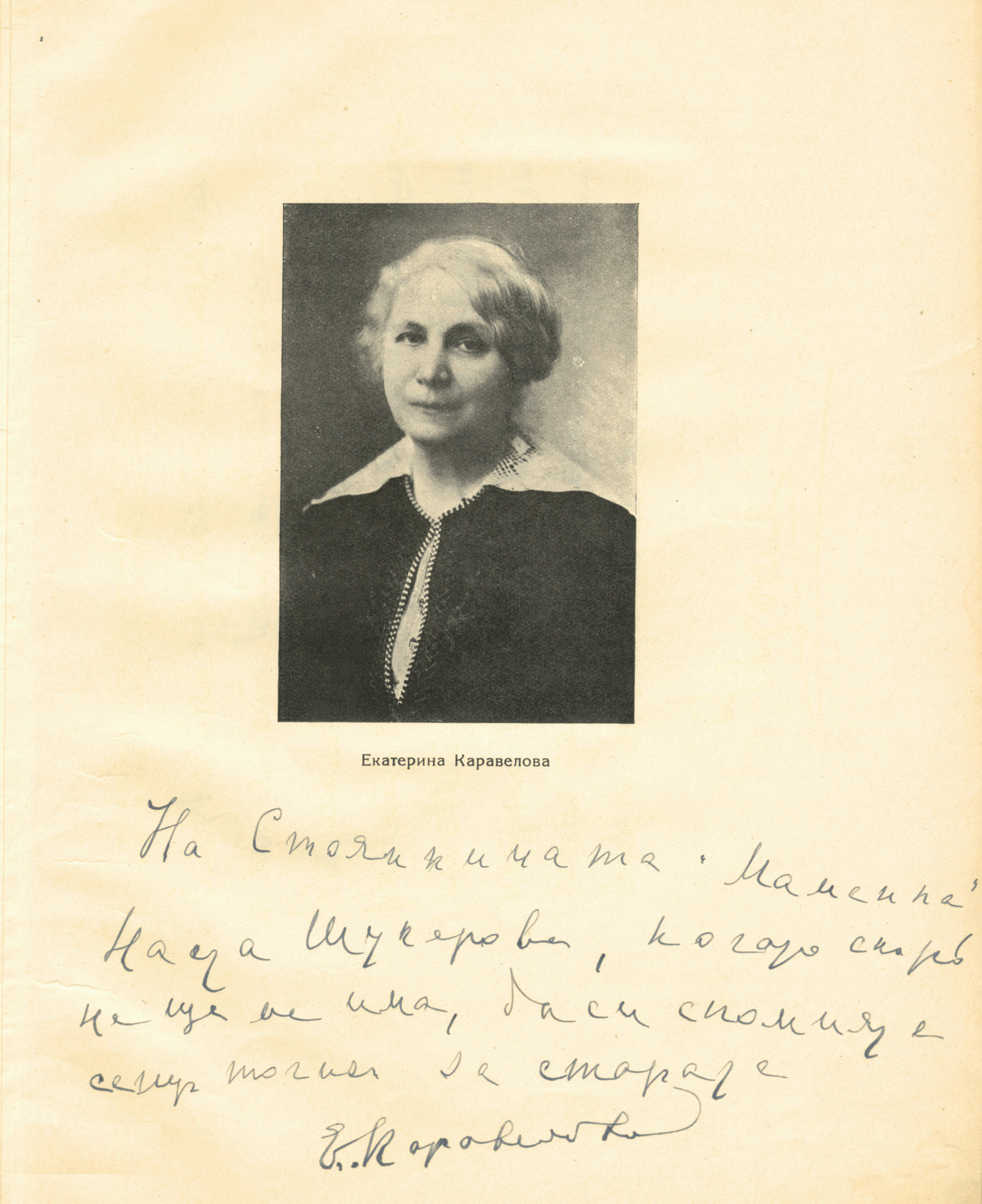 Ekaterina Karavelova (woman activist, author and translator), one of the most remarkable Bulgarian women at the end of 19 and the first half of 20 c., wife of Petko Karavelov (1843 - 1903) who was a leading Bulgarian liberal politician who served as Prime Minister on four occasions.